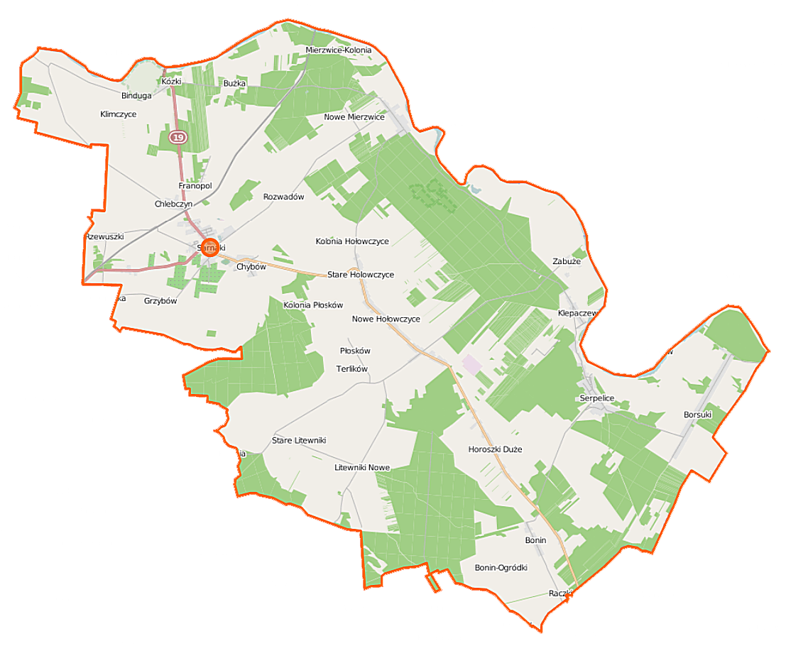 Map of Gmina Sarnaki, Poland This map of Sarnaki (gmina) was created from OpenStreetMap project data, collected by the community. This map may be incomplete, and may contain errors. Don't rely solely on it for navigation. Border coordinates52.379822.7994←↕→23.135152.2106